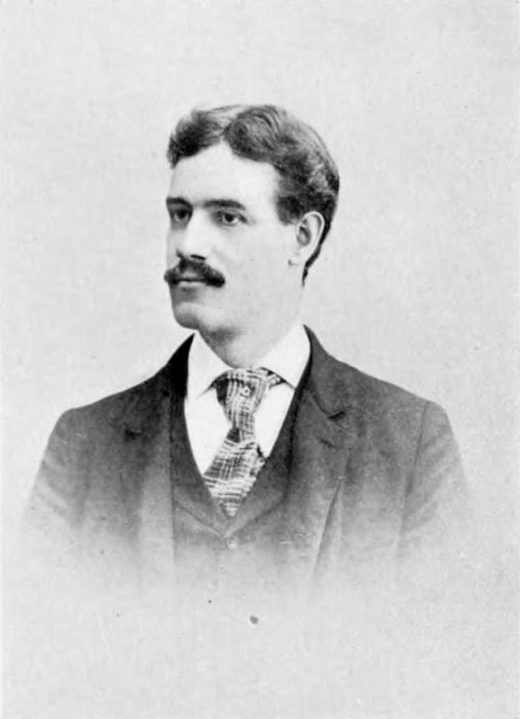 Portrait of William Emerson (b. 1873), later first Dean of the MIT School of Architecture, likely in his 20s. Taken before 1900.